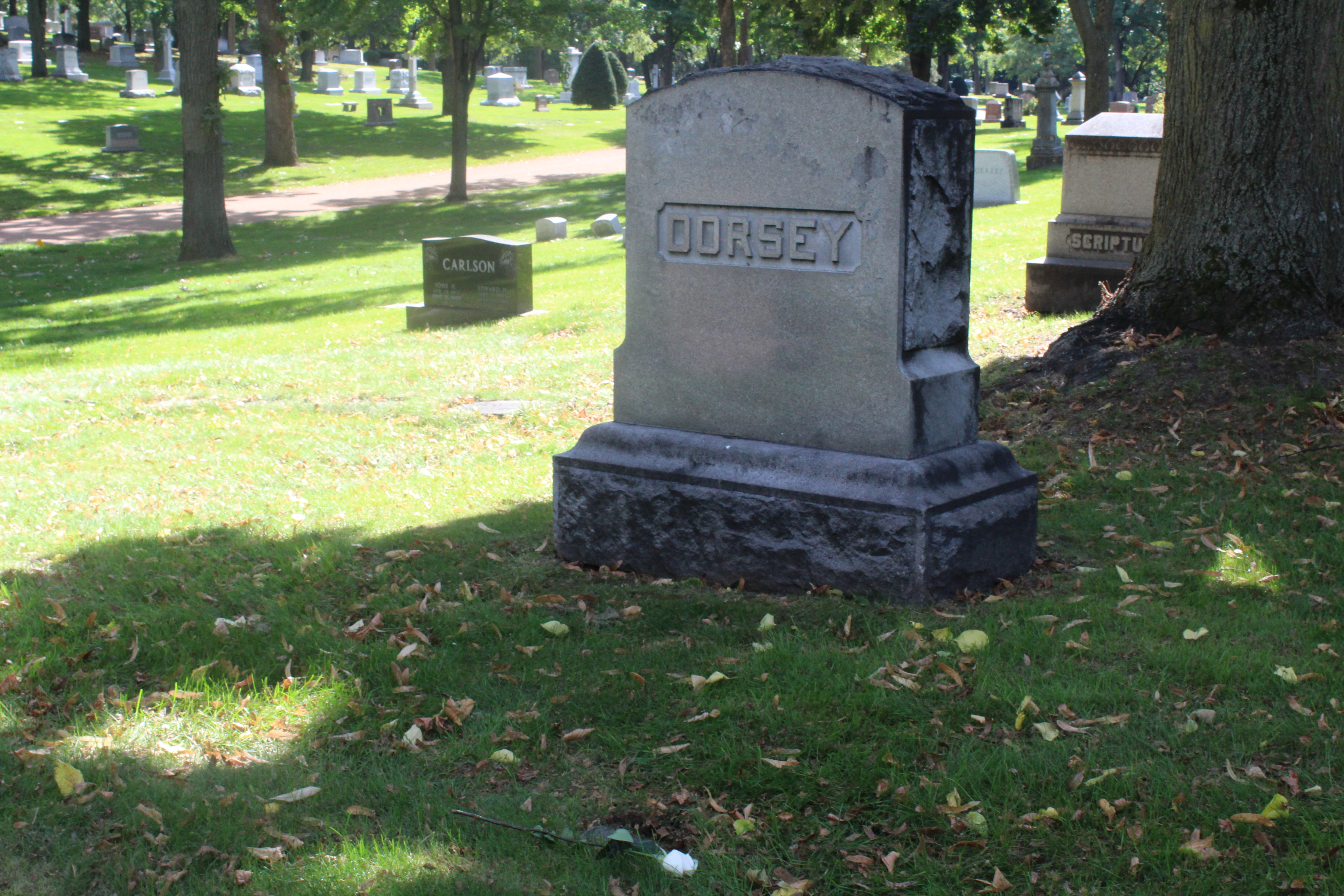 Grave of Ida Dorsey at Lakewood Cemetery. White flower in foreground is on the grave of Baby Dorsey who was stillborn. To the baby's left is a stone marking the grave of Ida's sister Roberta Burkes. The Dorsey monument says Burkes on the reverse side. Behind the monument are stones marking the graves of other members of Ida's family.